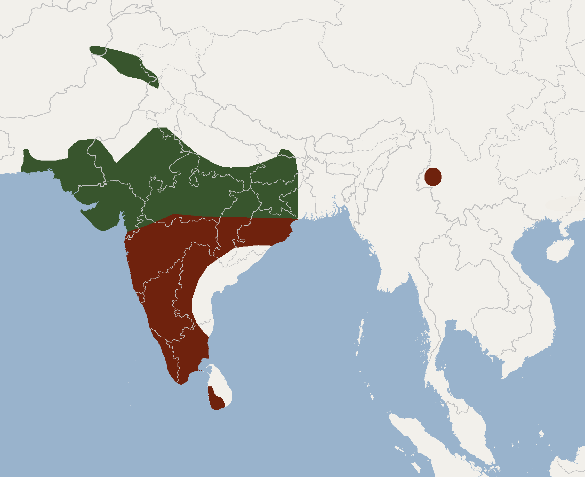 According to Menon, 2014. subspecies range: H.f.fulvus in brown, H.f.pallidus in green. H.f.fulvus H.f.pallidus